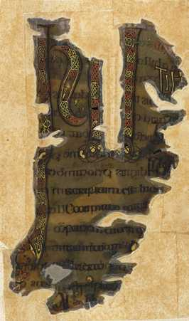 Folio 28r from the Cotton-Corpus Christi Gospel Fragment (British Library, MS Cotton Otho C V), the incipit to Mark. from here